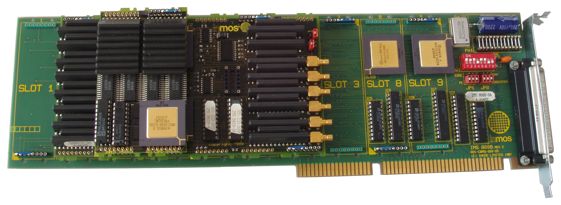 INMOS transputer evaluation platform IMSB008, IMSB419 and IMSB404 modules mounted